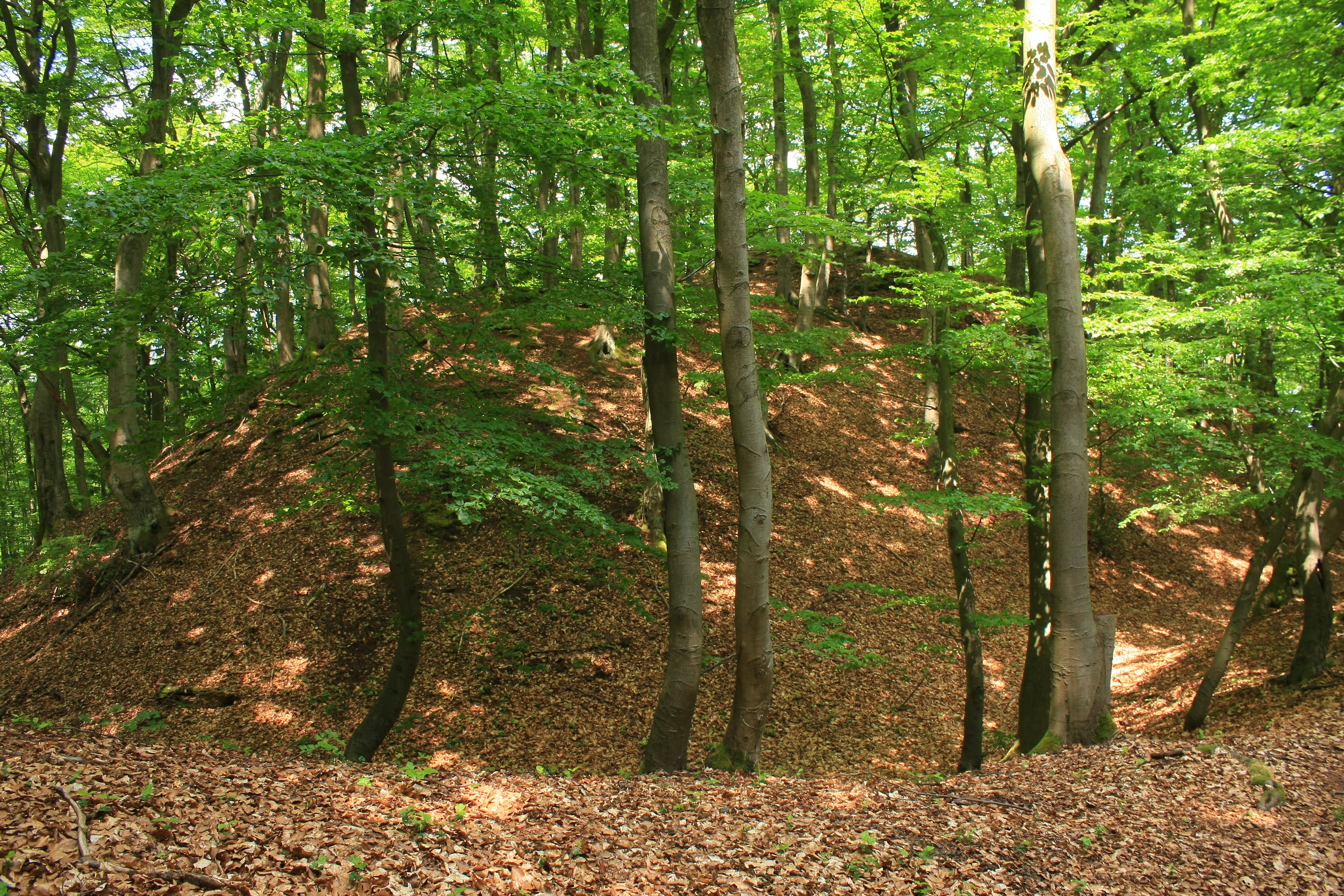 Hollende Castle near Wetter-Treisbach, Marburg-Biedenkopf District, Hesse, Germany